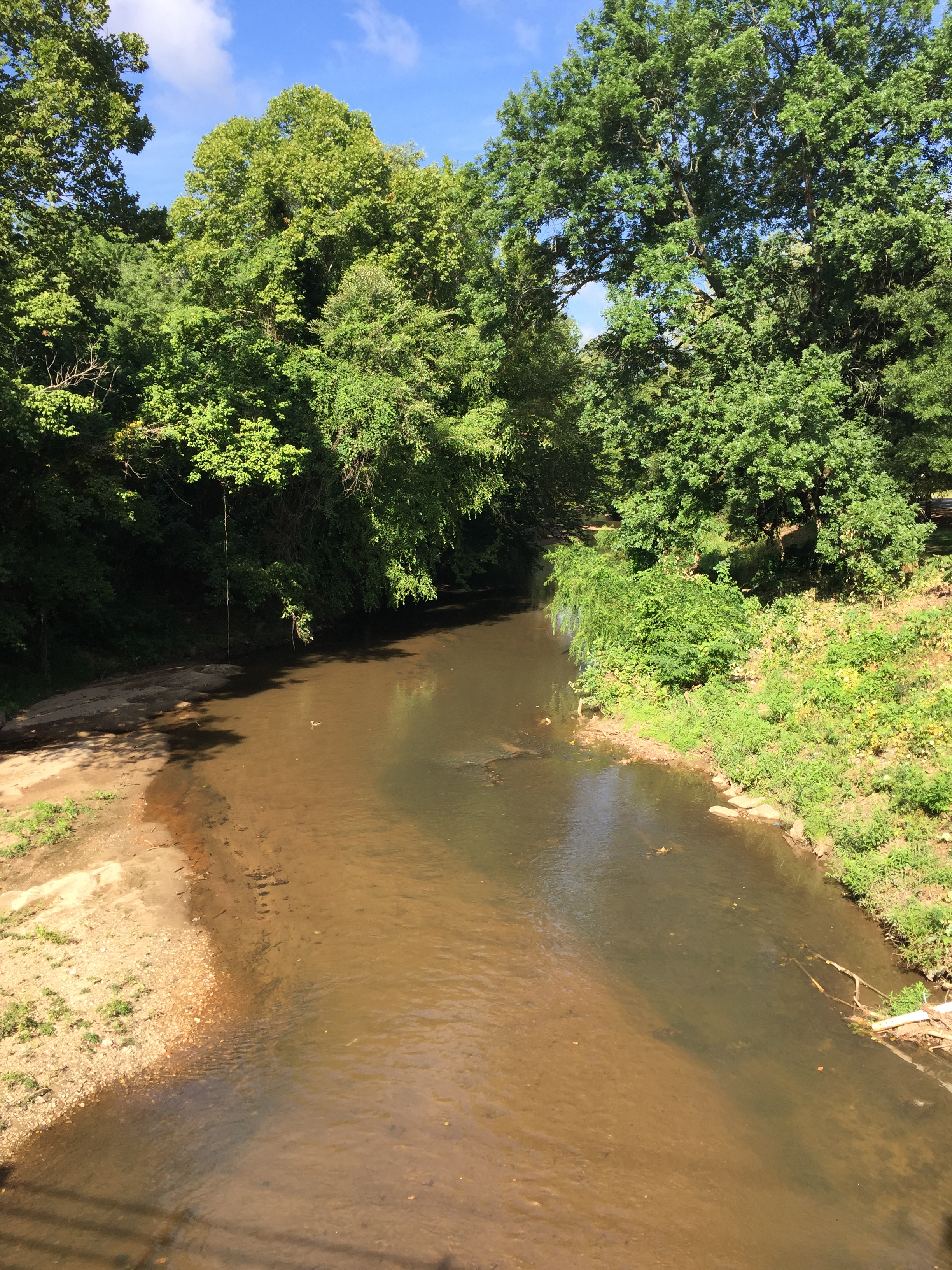 Peachtree Creek, Atlanta, July 2016